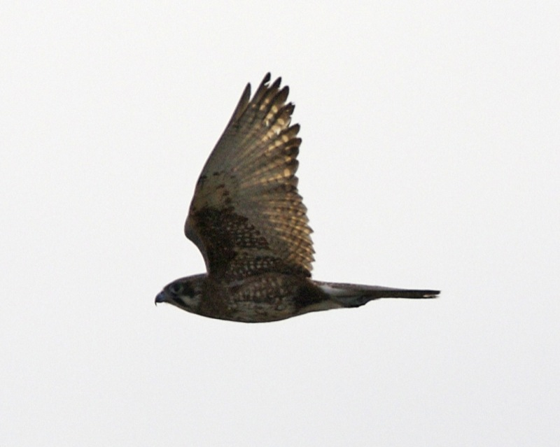 Brown Falcon (Falco berigora). Brisbane Ranges, Victoria